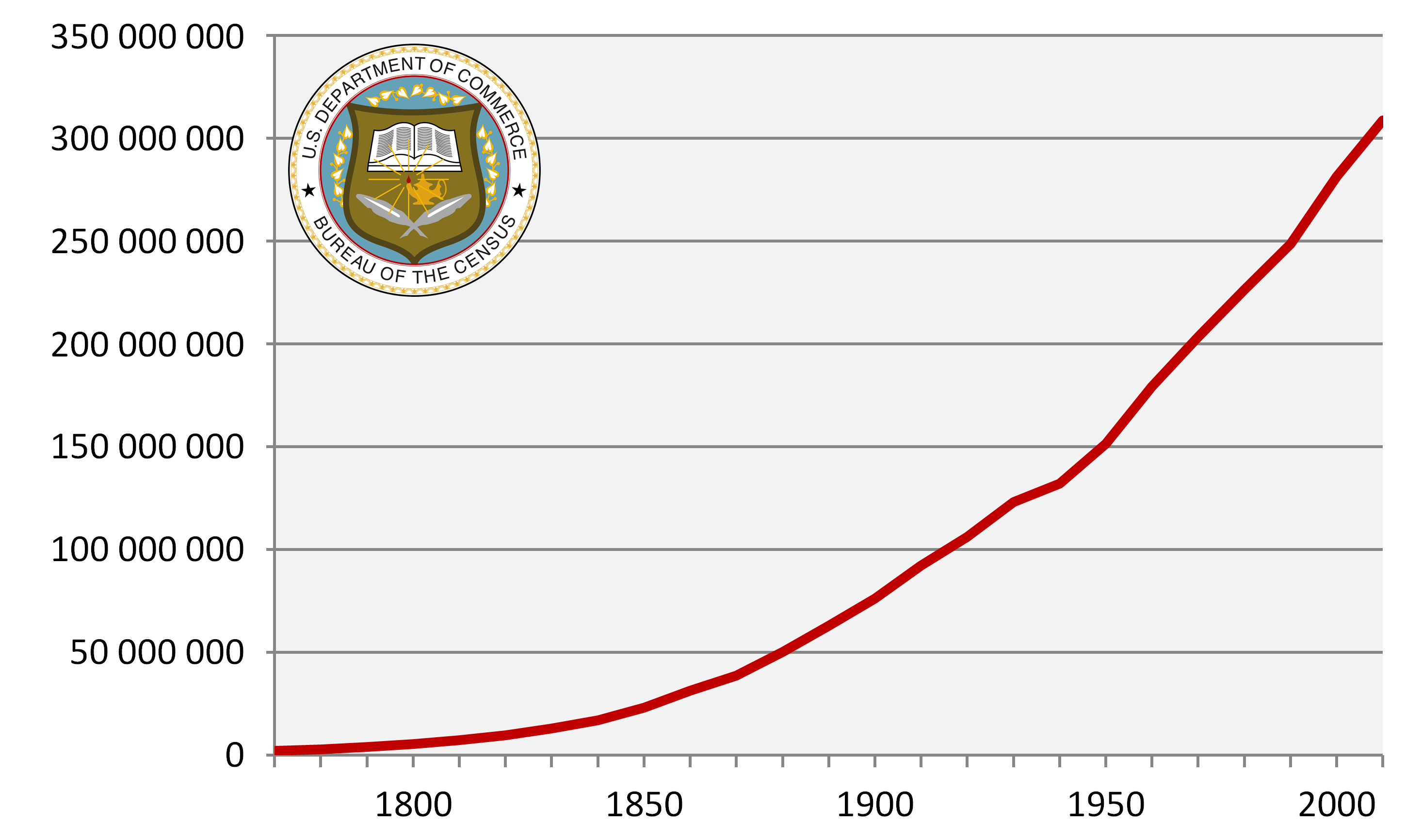 The United States's population (1770-2010). From the United States Census' data.